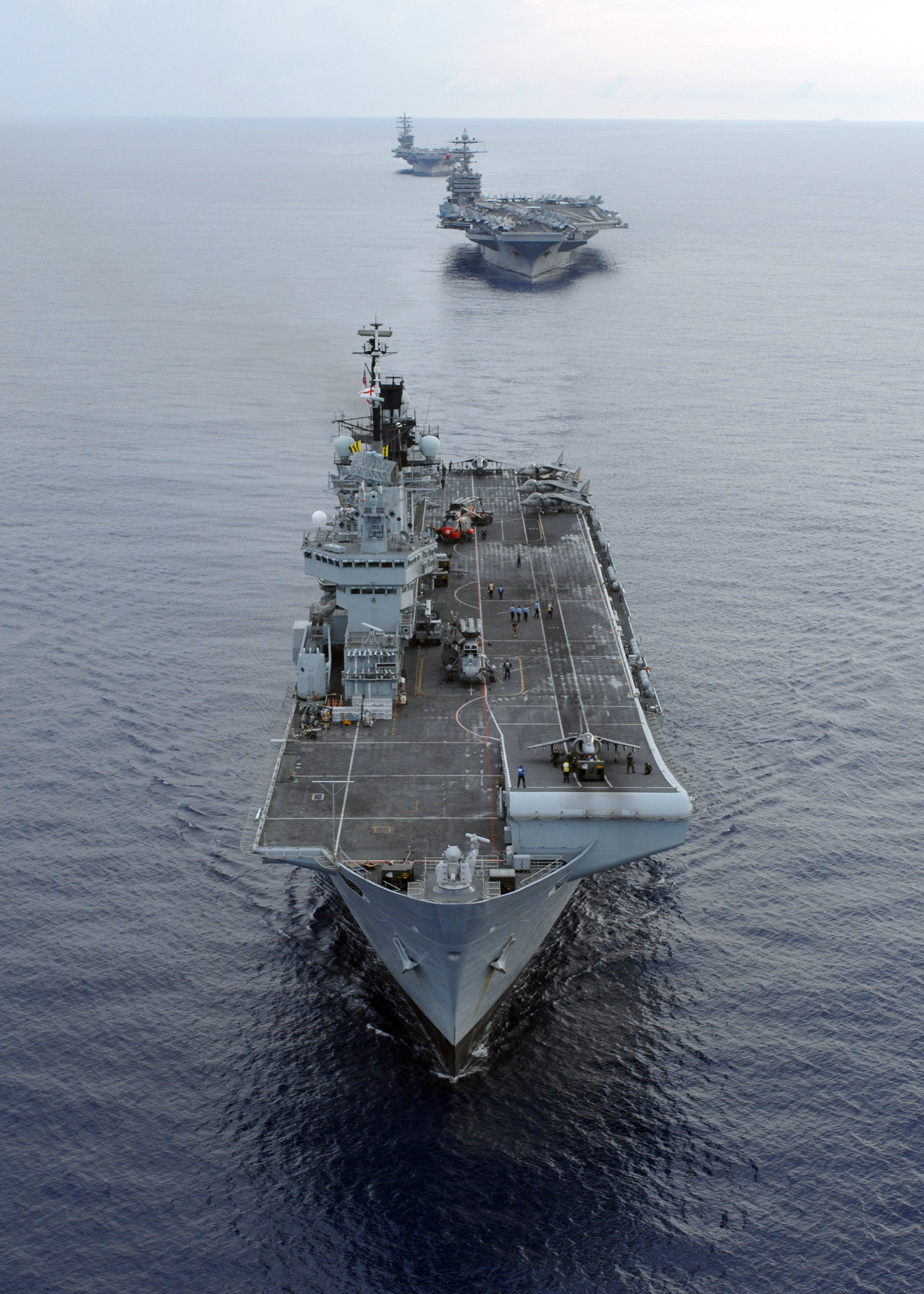 The Royal Navy Invincible-class aircraft carrier HMS Illustrious (R06) and United States Navy Nimitz-class aircraft carriers USS Harry S. Truman (CVN-75) and USS Dwight D. Eisenhower (CVN-69) transit in formation during a multi-ship maneuvering exercise in the Atlantic Ocean. The three carriers are currently participating in Operation Bold Step where more than 15,000 service members from three countries partake in the Joint Task Force Exercise (JTFX).